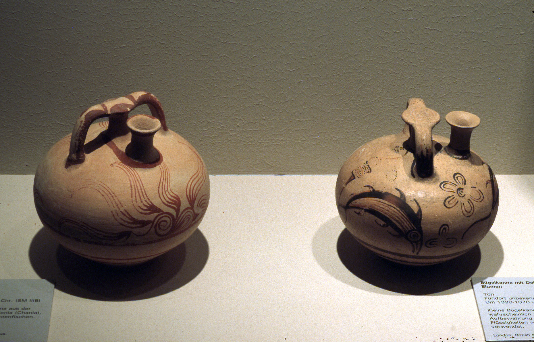 Minoan Ceramic